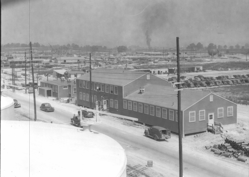 Laboratory and Supervisors Office Acid Area, West Virginia Ordnance Works, near Point Pleasant, WV. The large building is the Acid Area B (South) Laboratory and Supervisor's office 706Q. The smaller building to the left of it is the change house 707 T-2. All workers had to change into government clothes at the start of the shift and then shower and change into their street clothes before going home. The smoke in the background center was probably a coal-burning tug going up the Ohio River. In those days, old sternwheeler coal burning tugs were not out of the norm. -DLR